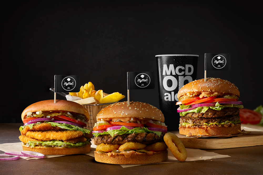 MyMac Hamburger McDonald's Israel